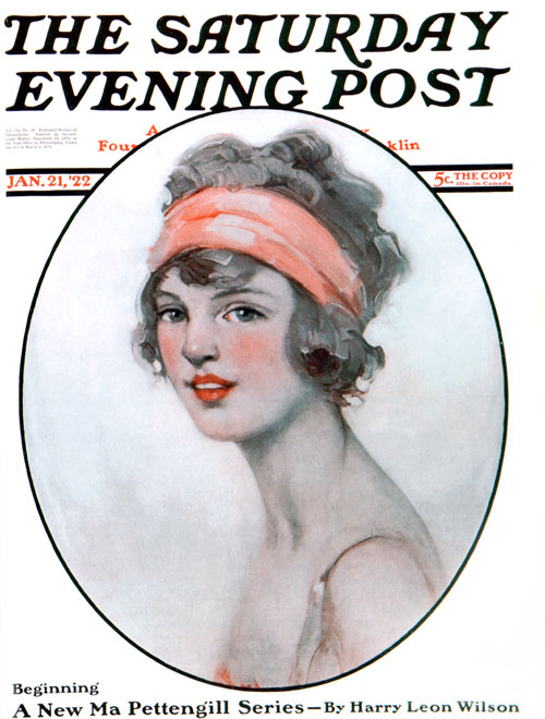 Saturday Evening Post cover 1-21-1922 by Ellen Bernard Thompson Pyle of Wilmington, Delaware. One of 40 SEP covers she made. Title "Woman with Headband"